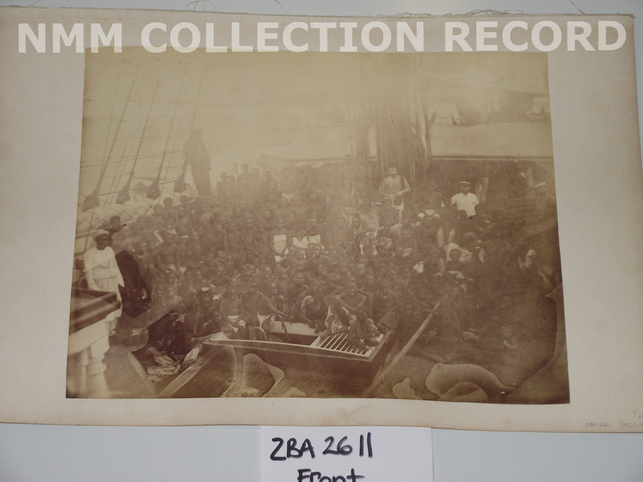 Group of slaves aboard ship Albumen print. Part of the Michael Graham-Stewart slavery collection With an uncatalogued photograph printed on the reverse. Record Shot - Do not reproduce.